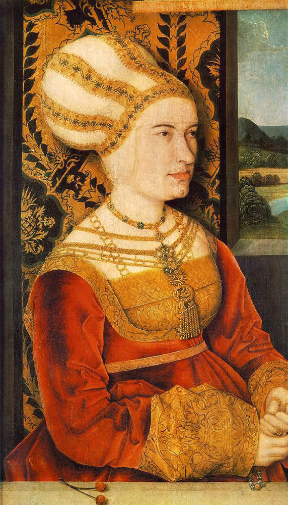 Portrait of Sibylla von Freyberg (1478-1521), née Gossenbrot, wife of Ludwig von Freyberg. She is wearing the livery collar of the Order of the Swan.